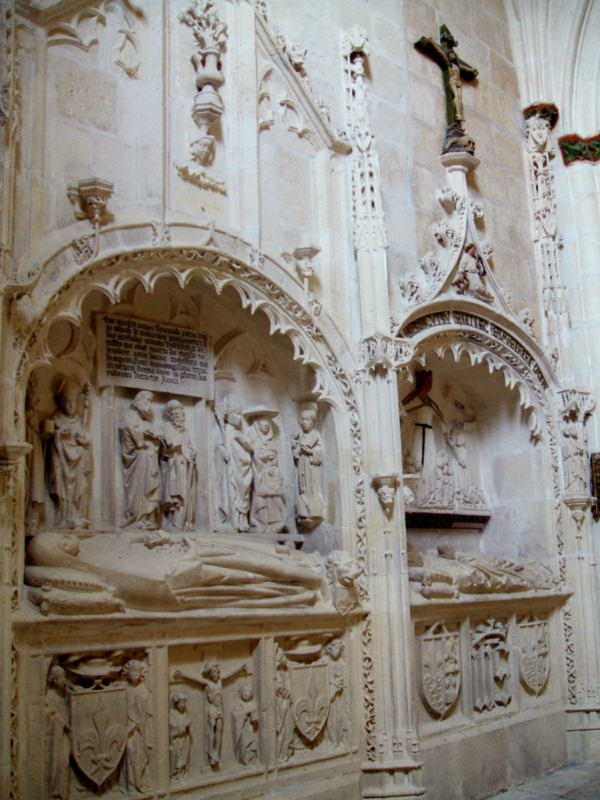 Sepulcros góticos en la Capilla de la Visitación de la Catedral de Burgos. España